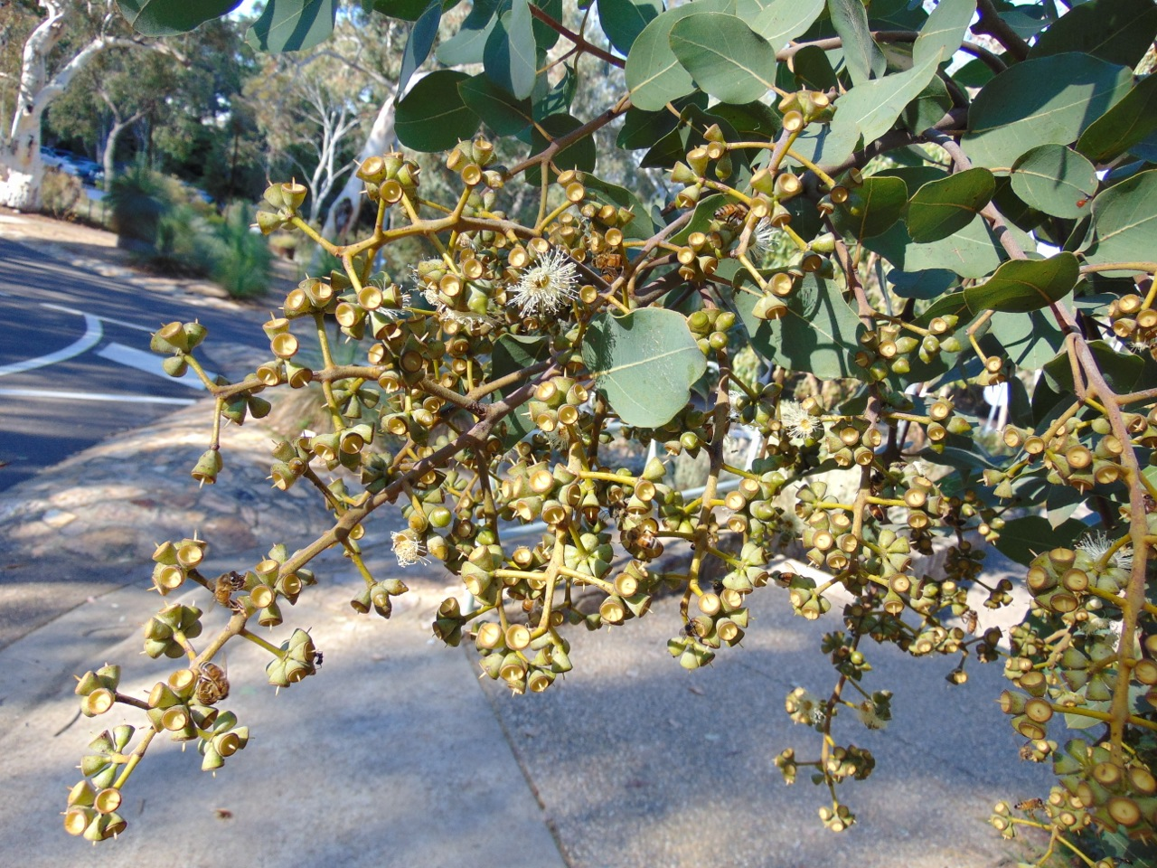 Australian National Botanic Gardens. Please respect author's moral rights by not changing this description or the image title.